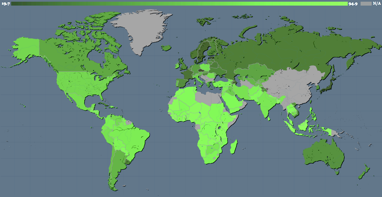 2009 "The Religiosity Index is a measure of the importance of religion for respondents and their self-reported attendance of religious services. For religions in which attendance at services is limited, care must be used in interpreting the data."